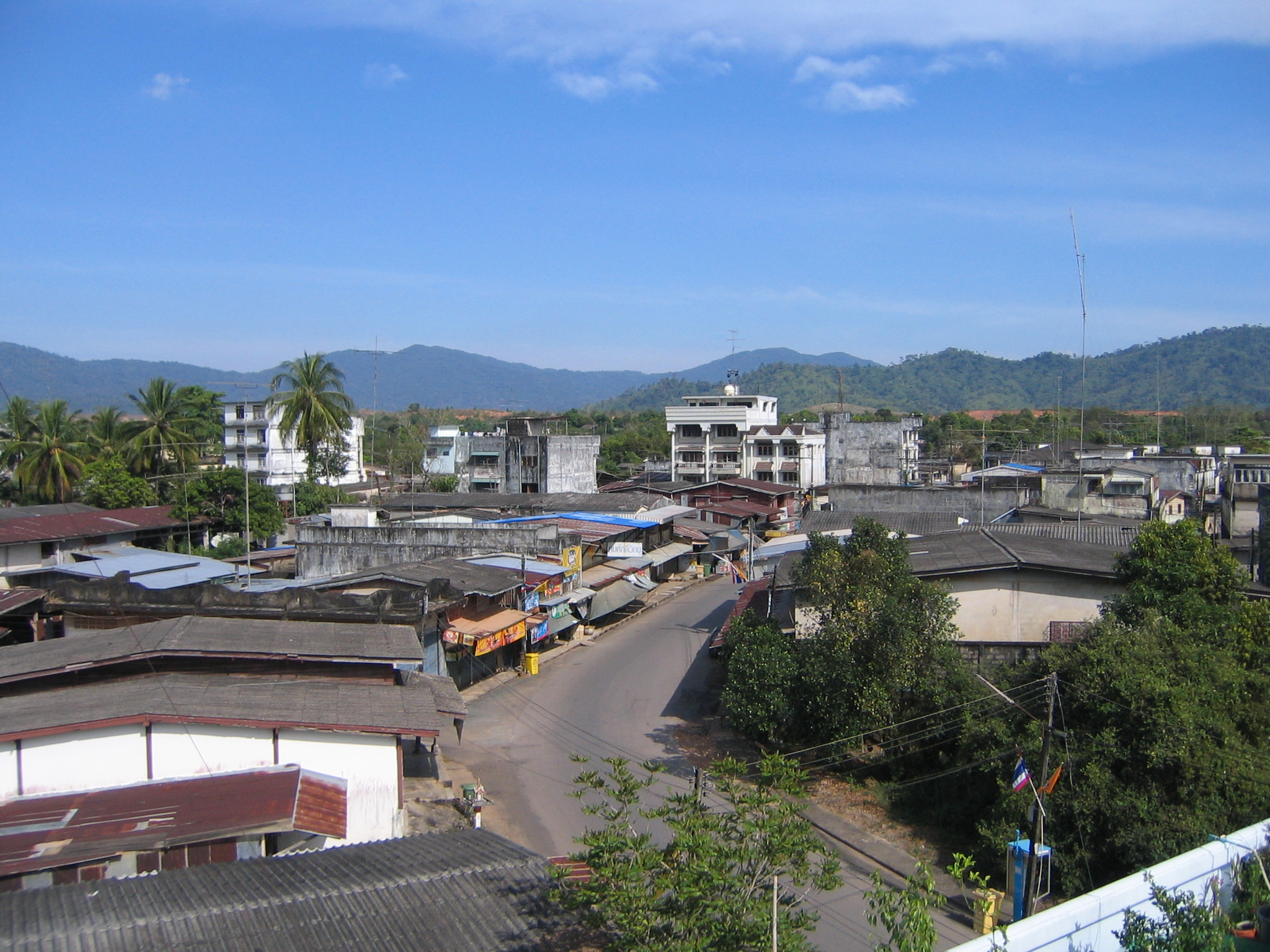 A general view over the center of Amphoe Bo Rai, Trat Province, Thailand. In the background, the Cambodian Khao Banthat Mountains (Cardamom Mountains).